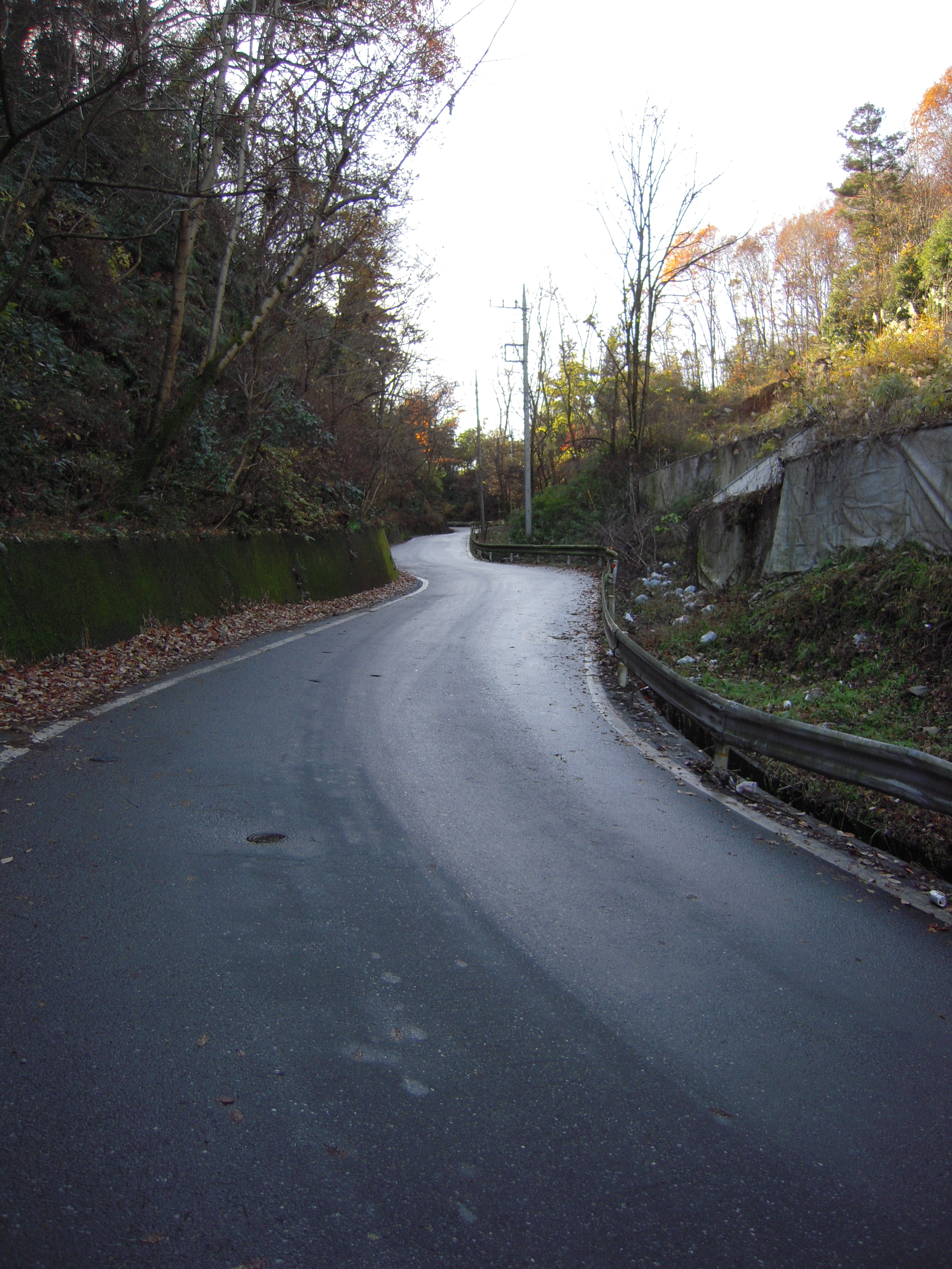 The hillclimb of Takatsuki Waterworks, where Eddy Merckx and other riders ran in Tokyo Olympic cycle roadrace 1964.